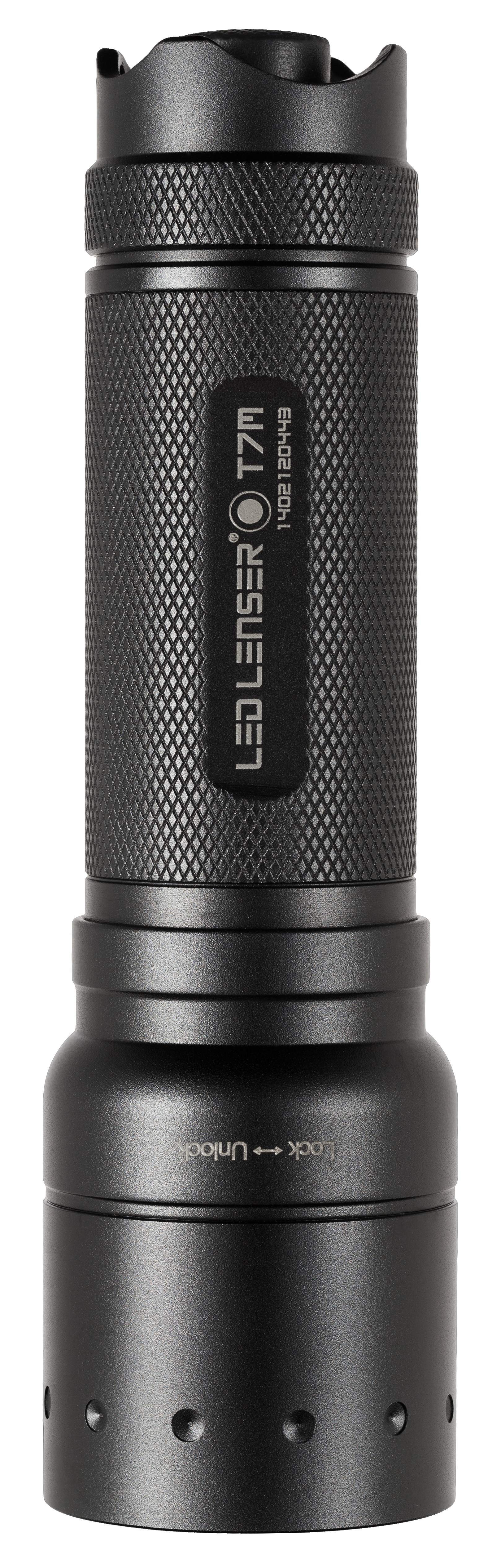 LED LENSER T7M tactical flashlight equipped with a microcontroller.